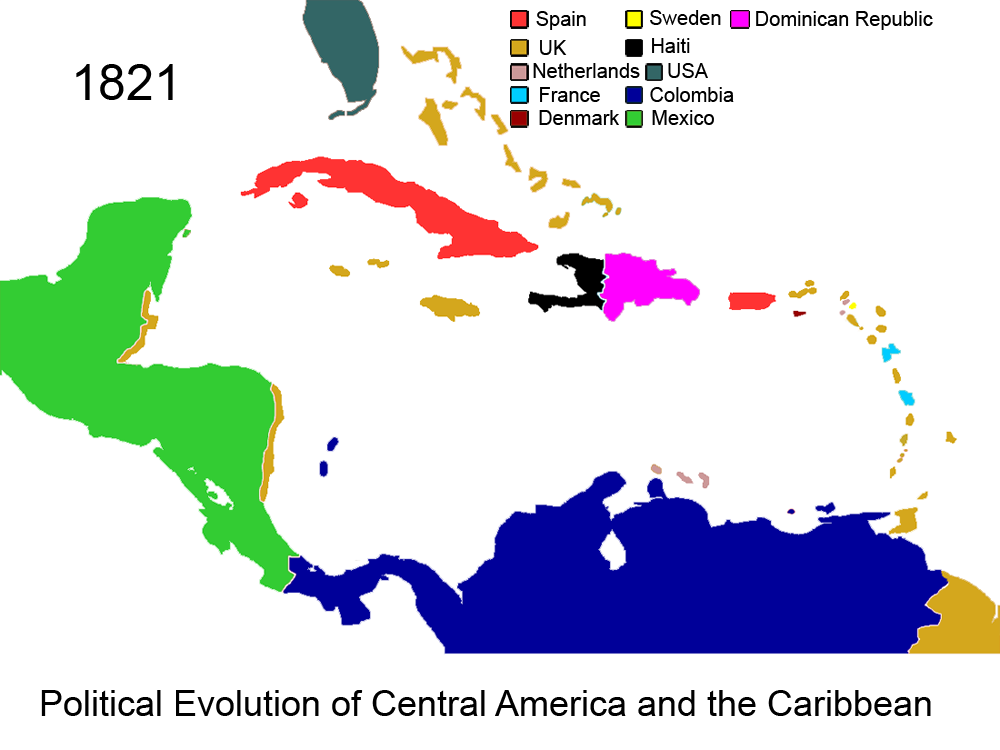 Political Evolution of Central America and the Caribbean